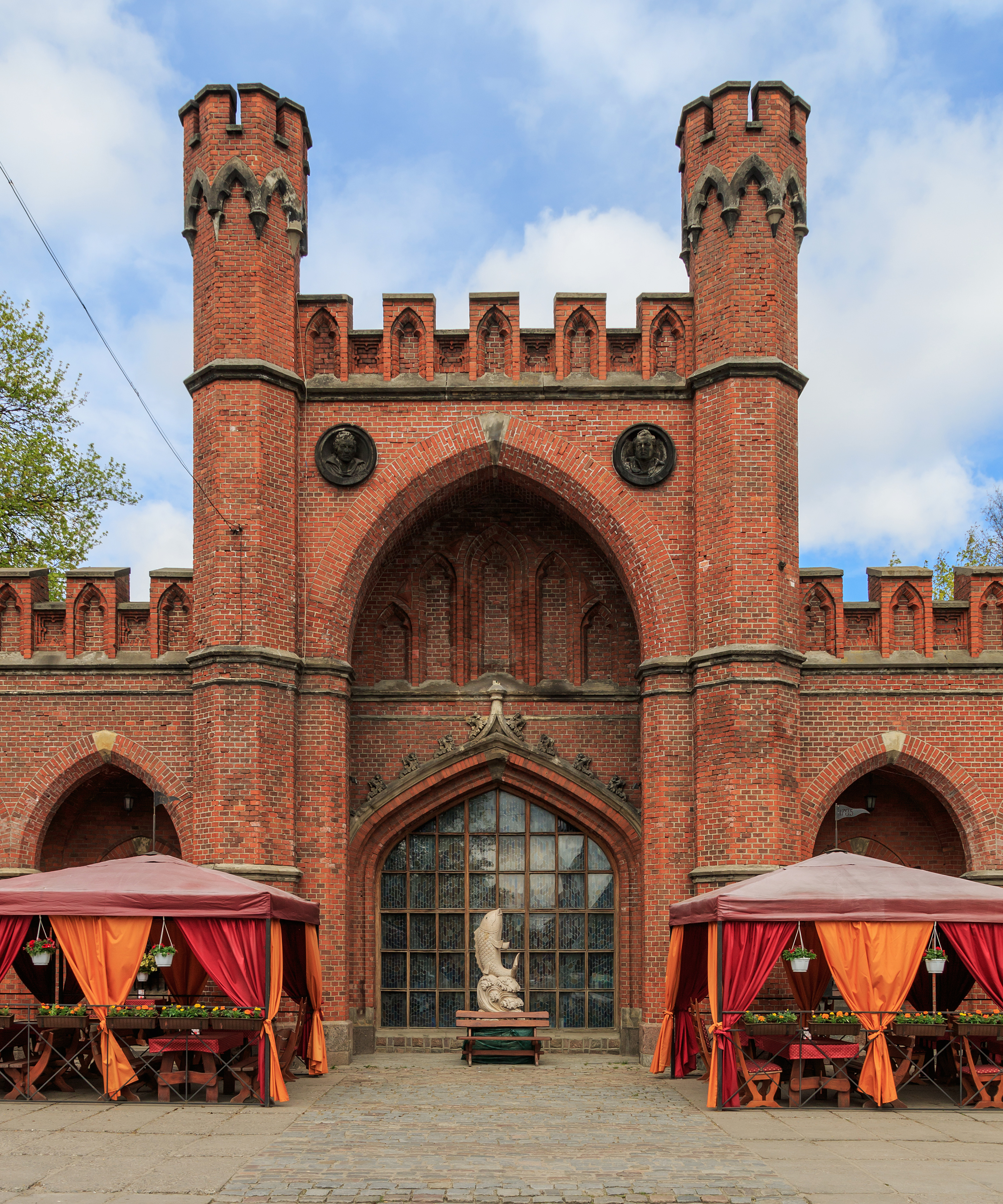 Rossgarten Gate in Kaliningrad formerly Königsberg, Kaliningrad Oblast (Russia).